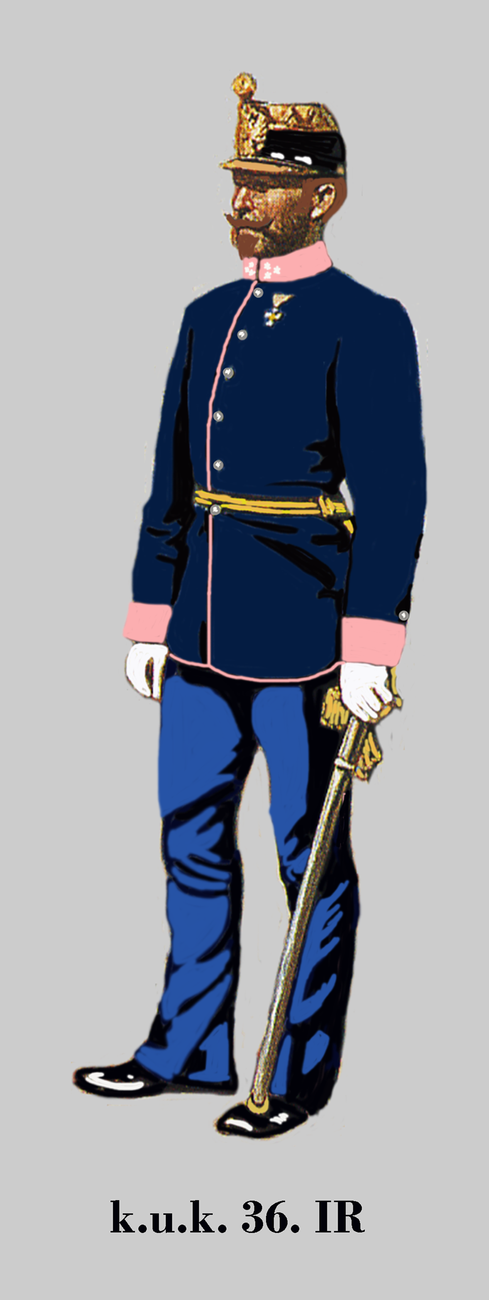 Captain of the Austria-Hungarian (k.u.k.). 36th german Infantry Regiment in Service dress 1914